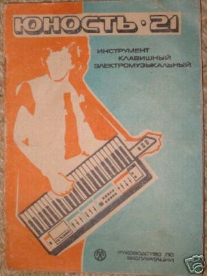 Murom Radio Plant's Junost-21 (keytar manual)